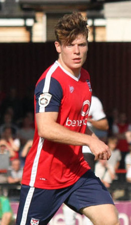 Alex Whittle playing for York City against F.C. United of Manchester at Bootham Crescent, York on 28 August 2017